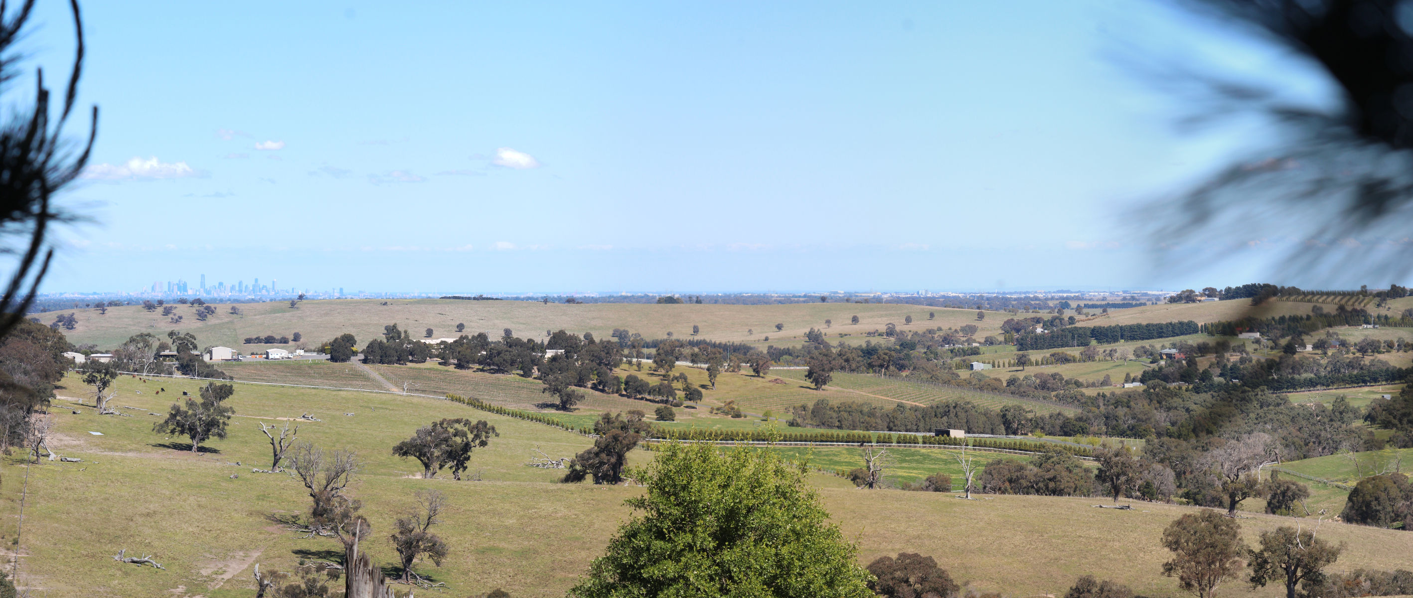 Photographed from Glenburnie Road with Melbourne CBD skyline on the horizon. Northern Melbourne Institute of Tafe's Northern Lodge Stud provides training in equine studies from Certificate to Bachelor degree level. The 320 hectare property also has vineyards for courses in viticulture, wine making, marketing, and vineyard management from Certificate to degree level. The property is located 40 kilometres north of Melbourne in the foothills of Victoria's Great Dividing Range.